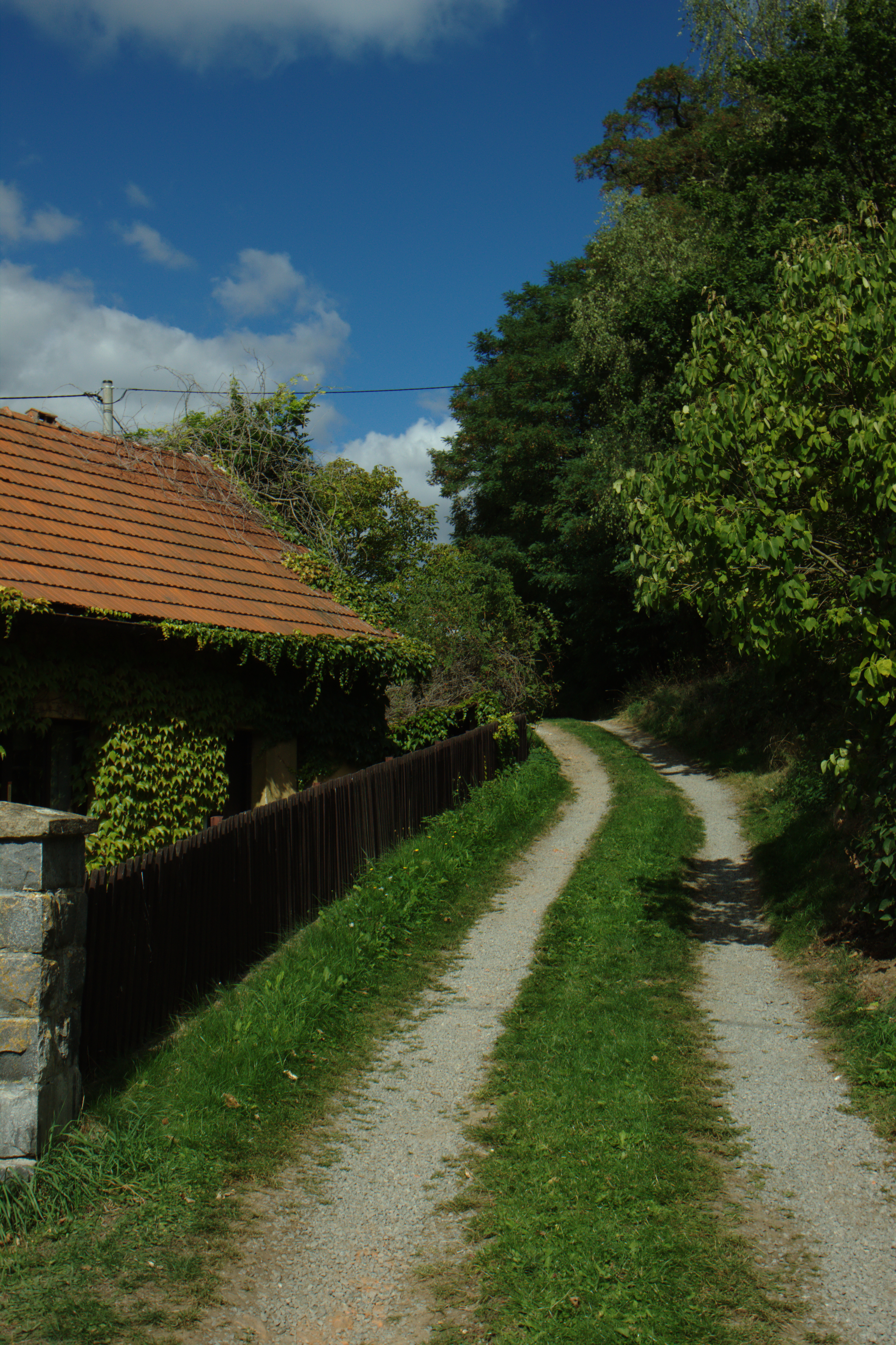 A roof of one fo the buildings near the Phov bell tower, Central Bohemia, CZ